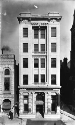 Front of building after the upper two floors were added